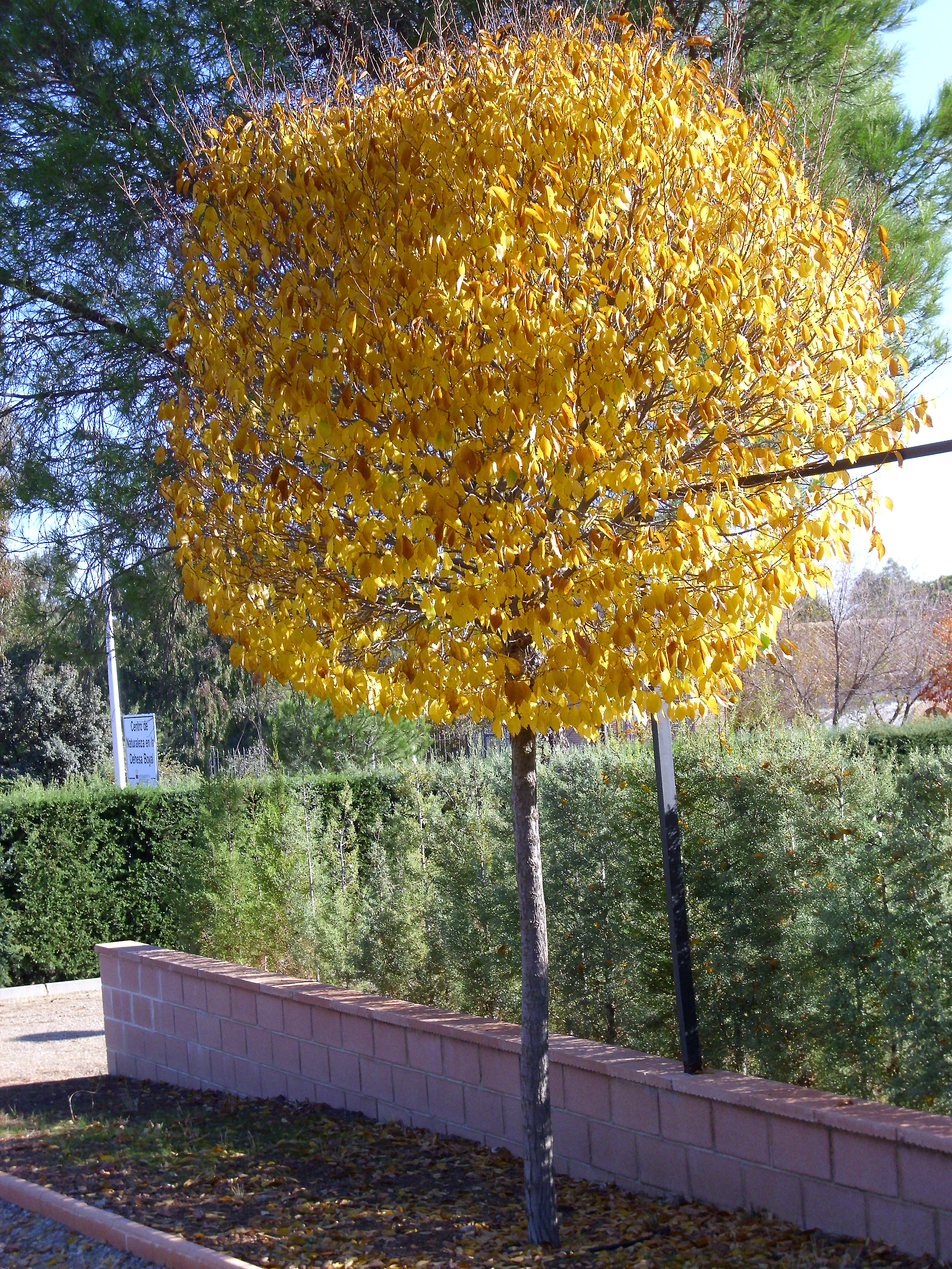 Ulmus procera cultivar habit, Dehesa Boyal de Puertollano, Spain